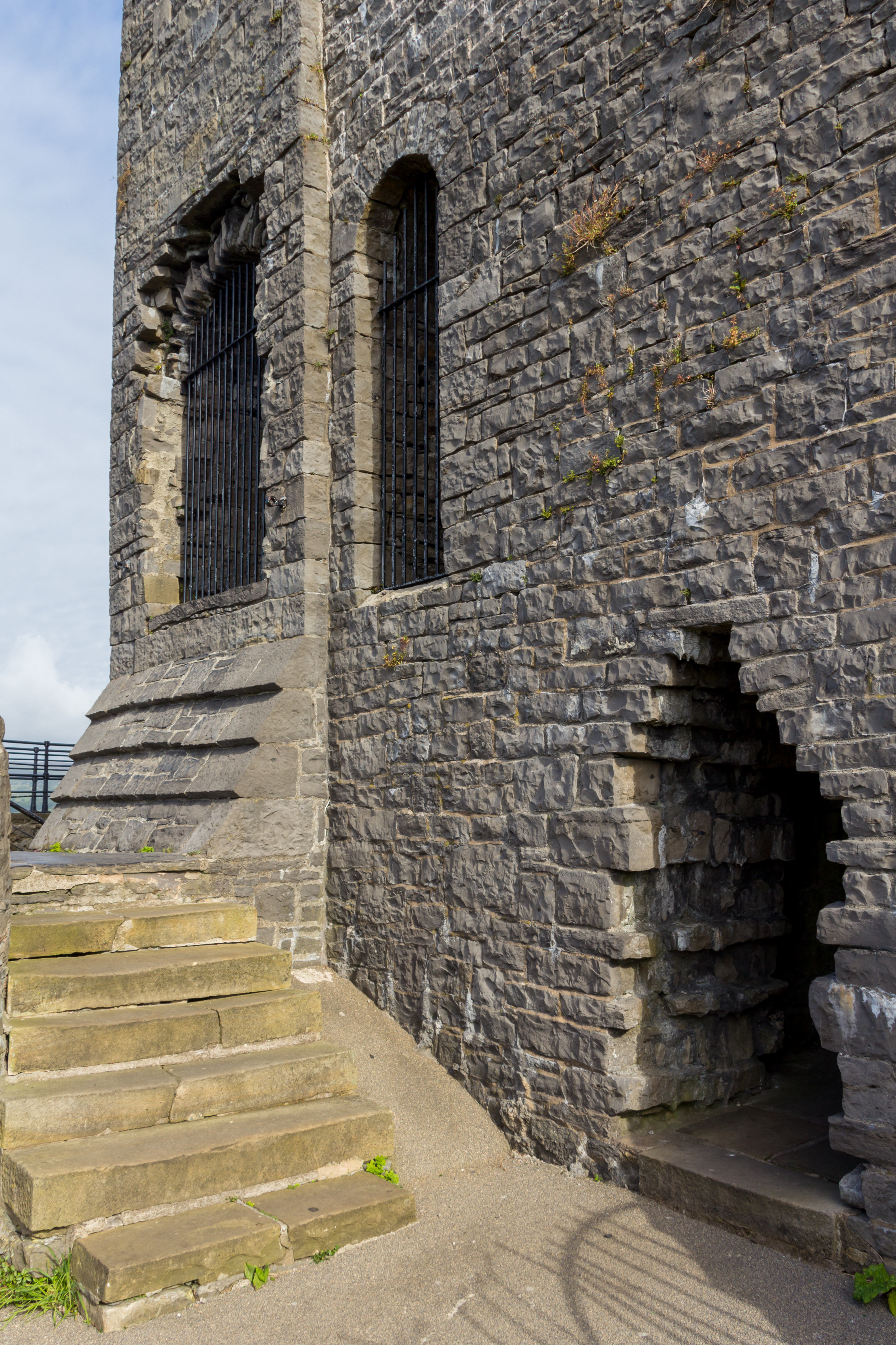 Wikimedia editathon at Clitheroe Castle Museum.